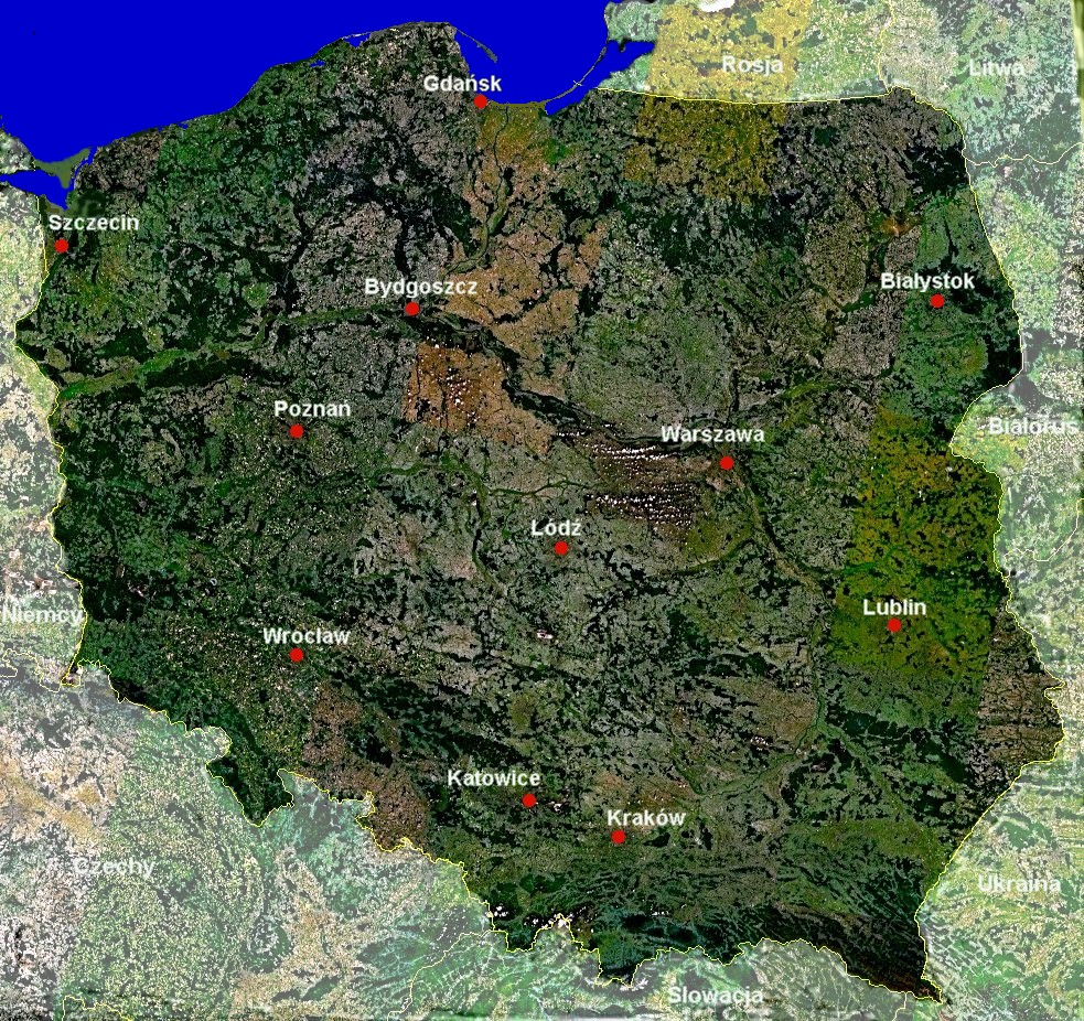 Poland map based on NASA screenshots